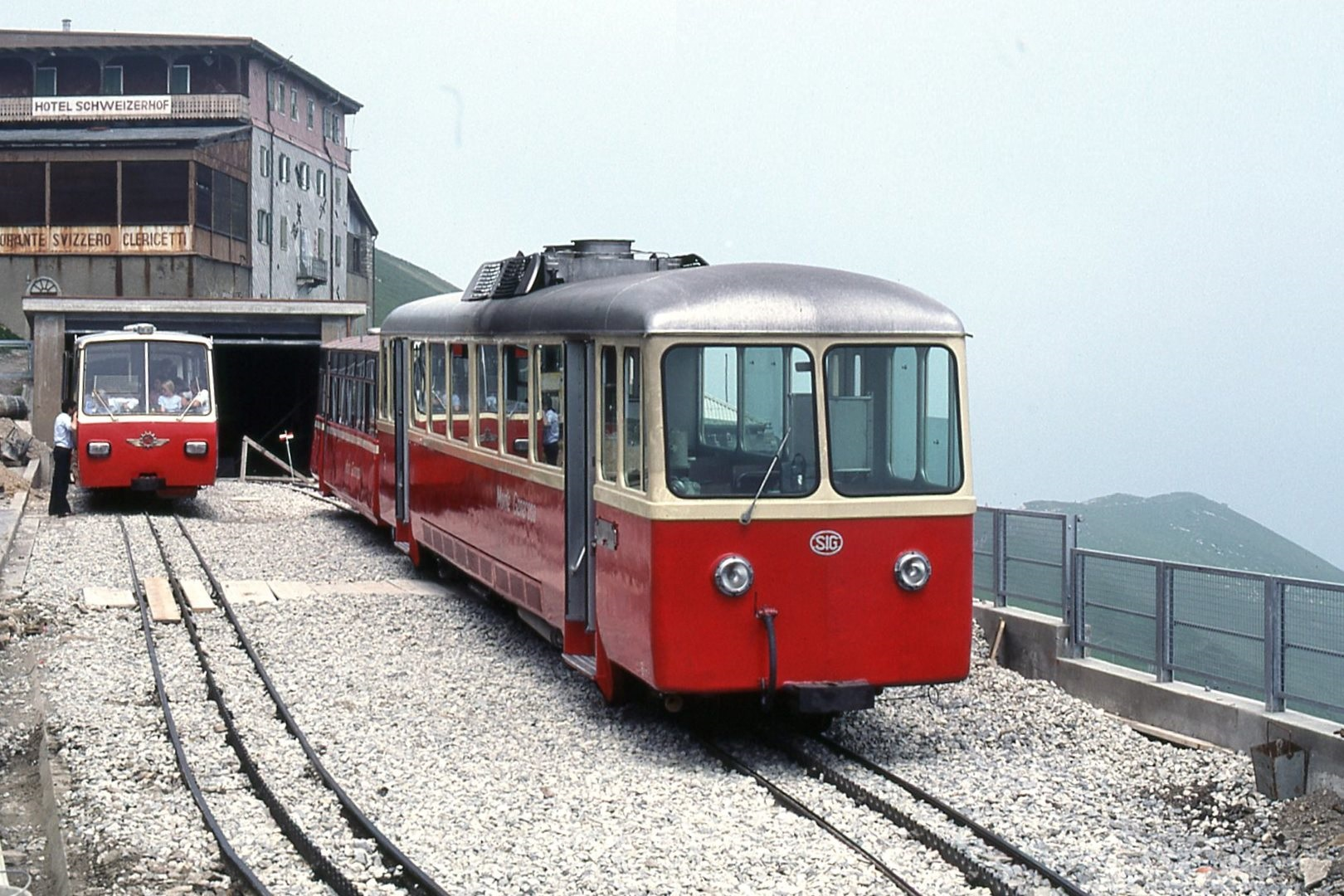 View of the Generoso Vetta train station of the Monte Generoso Railway a short time before the electrification in 1982. On the track to the right is a railcar Bhm 2/4, on the left in the background is a railcar Bhm 1/2.